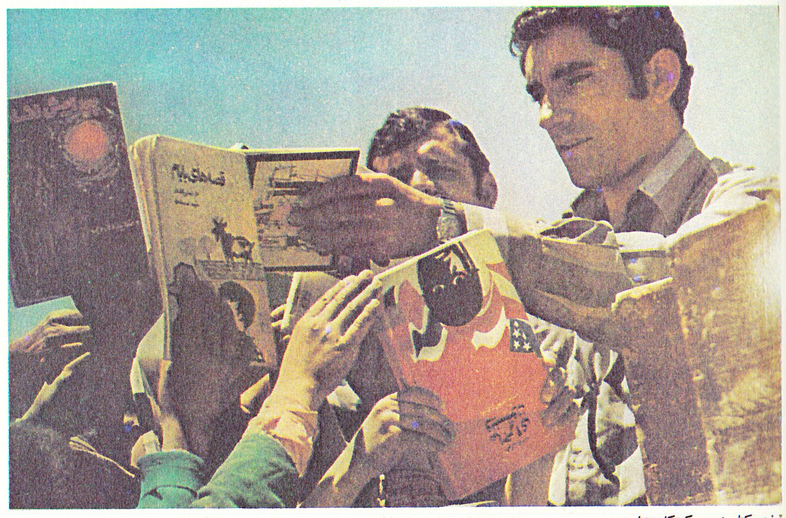 Distribution of books between tribal children